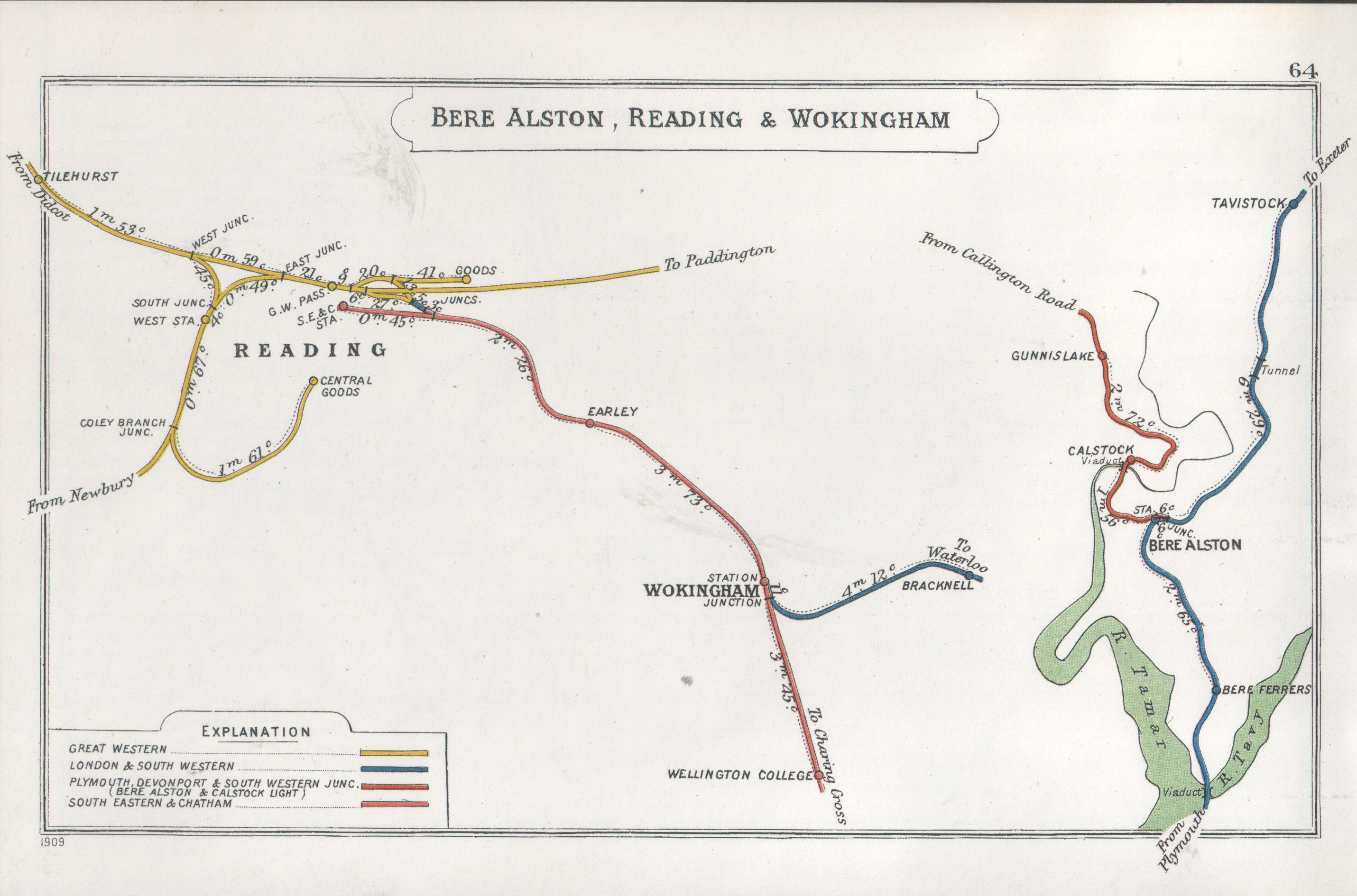 Pre Grouping railway junction around Bere Alston, Reading & Wokingham